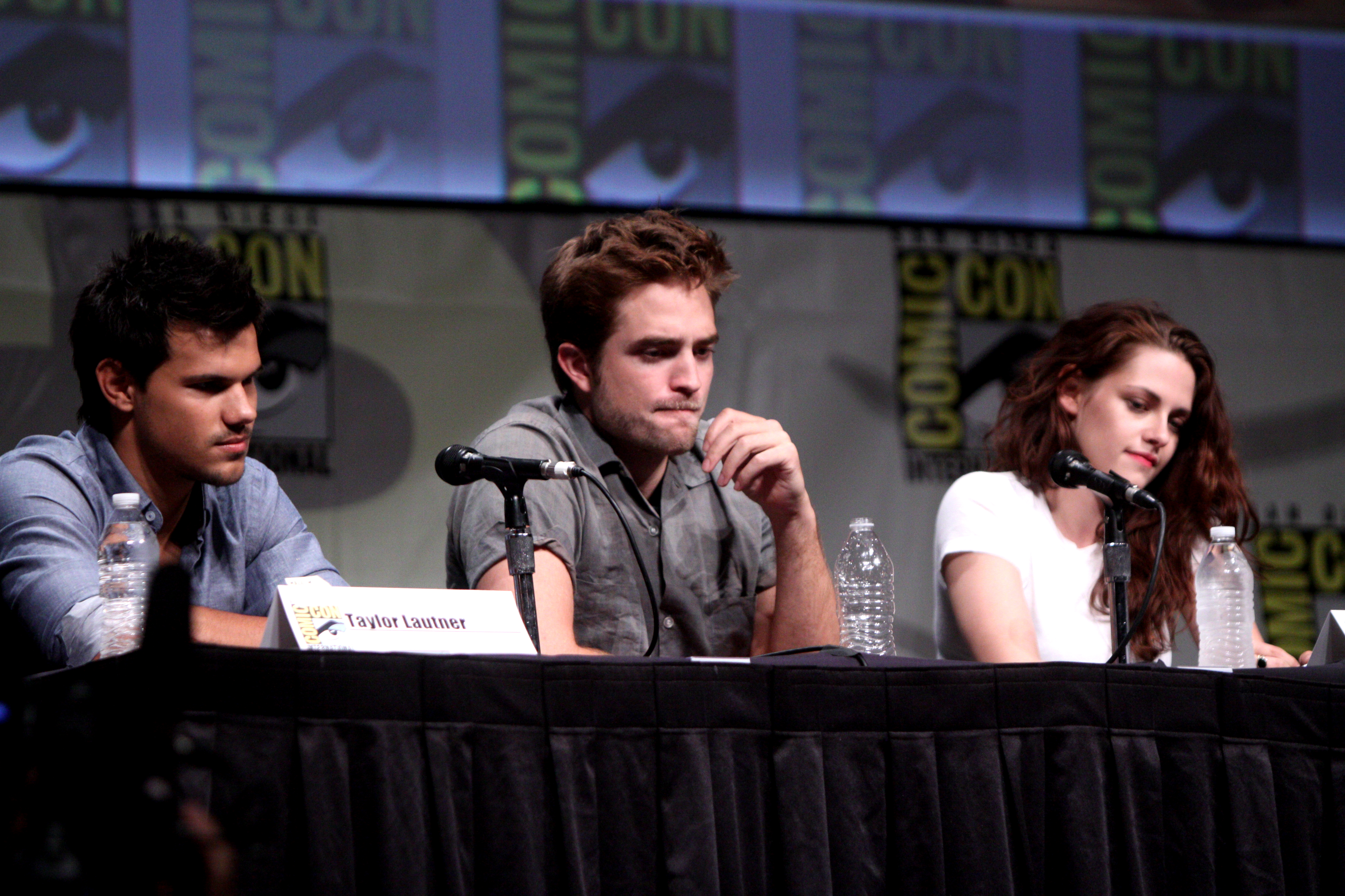 Taylor Lautner, Robert Pattinson & Kristen Stewart speaking at the 2012 San Diego Comic-Con International in San Diego, California.